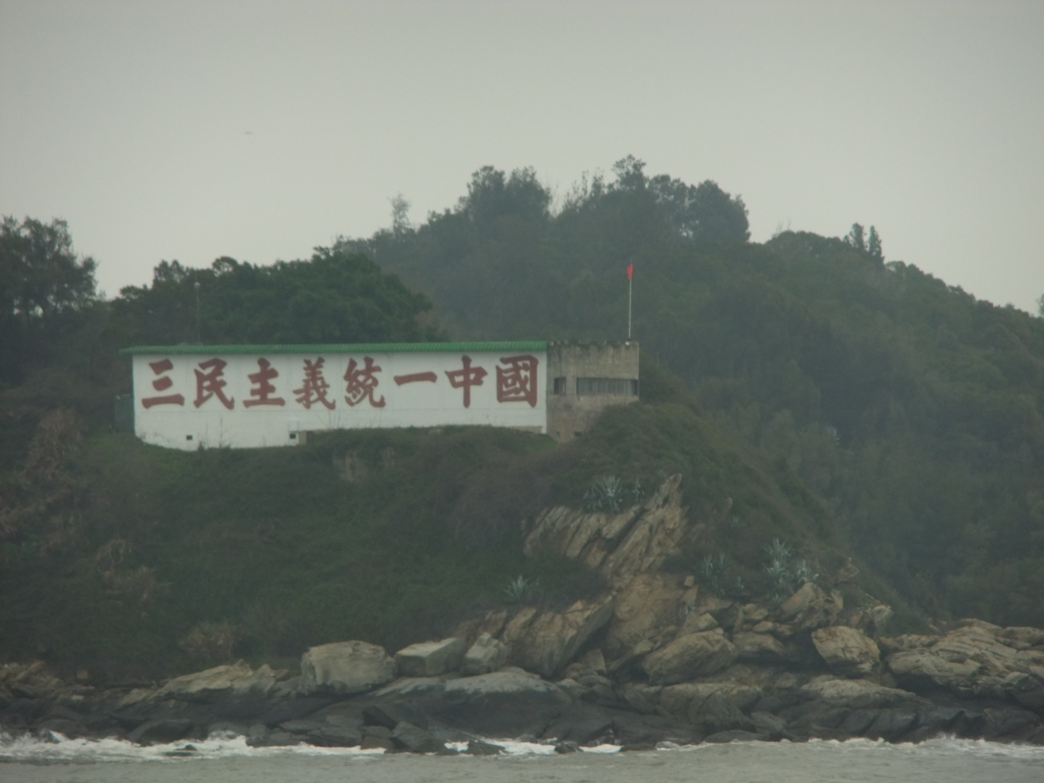 Dadan Island (probably): R.O.C. fortifications.